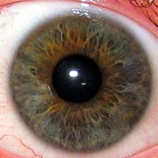 The iris of a human eye. 225 pixels square.